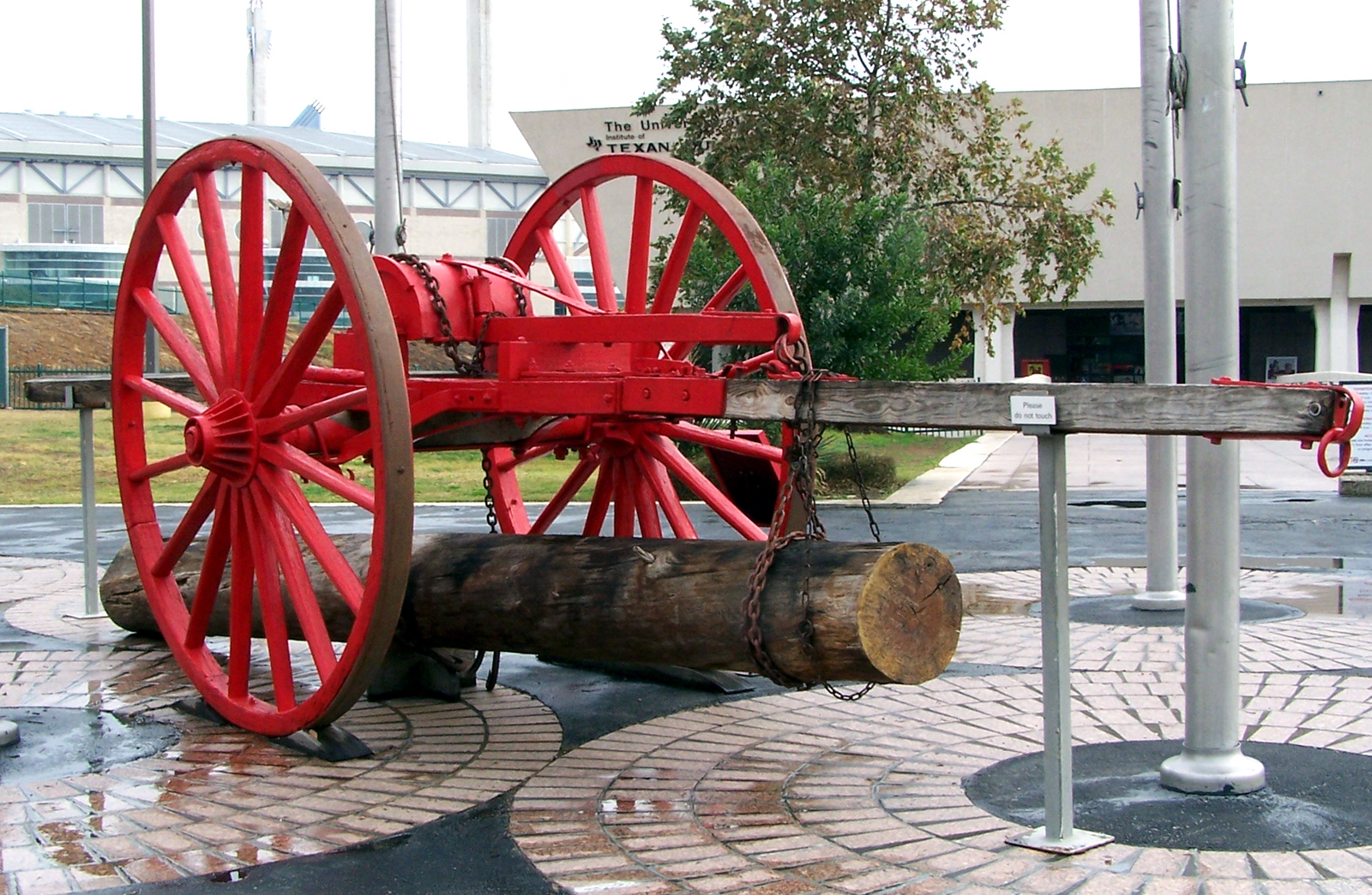 Logging wheels – A slip tongue "log skidder" at the Institute of Texan Cultures, San Antonio, Texas, United States.